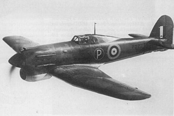 Hawker Tornado – single seat fighter of the British Royal Air Force, not introduced, developed further to the Typhoon and Tempest Picture shows one example Mk. IA or IB equipped with Rolls-Royce Vulture 24 cylinder X-engine on test flight in 1940/41